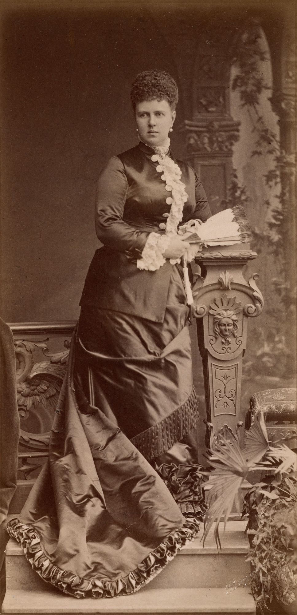 Maria Alexandrovna, Duchess of Edinburgh